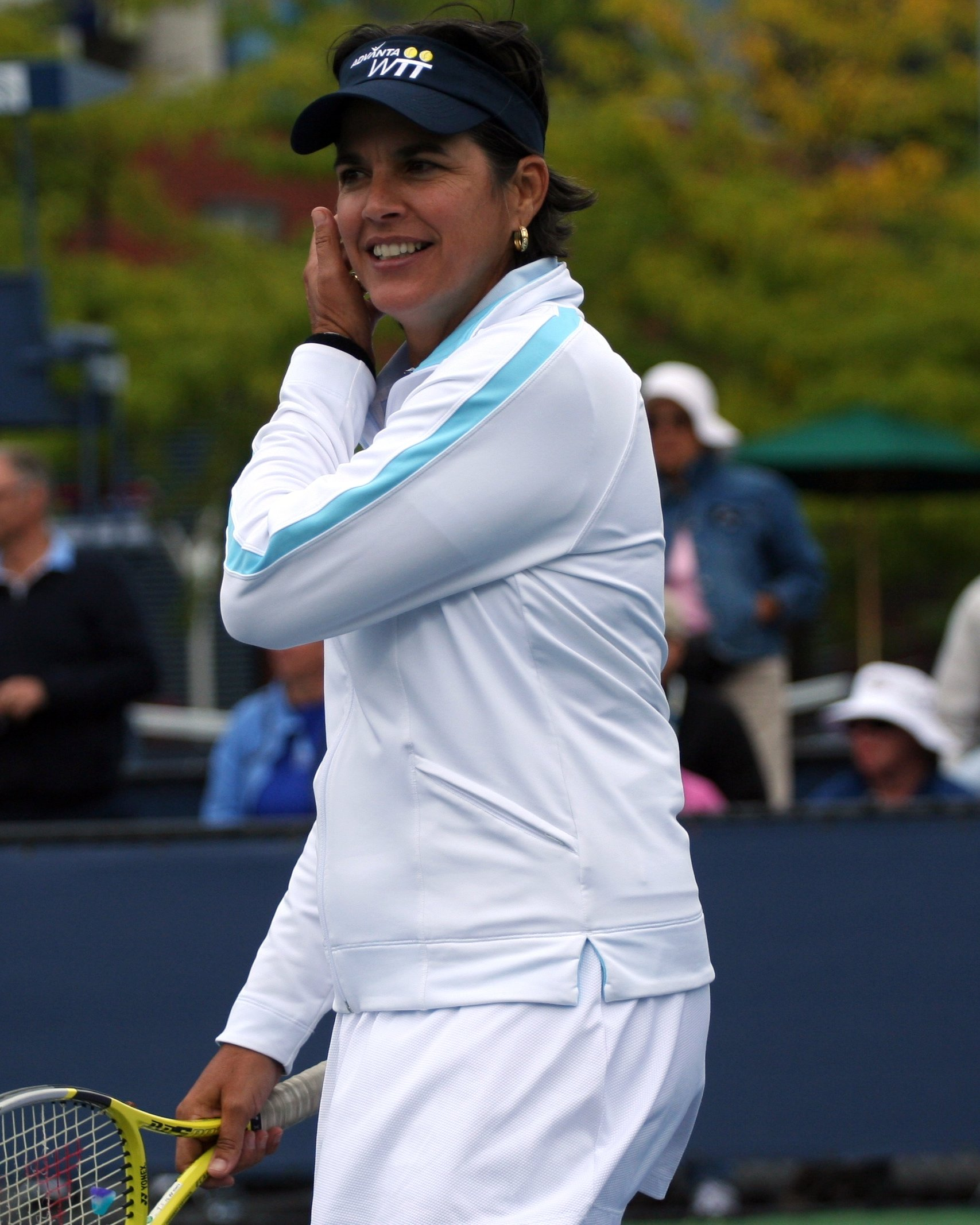 U.S. Open Champions Team Tennis Thursday, Sept. 10, 2009